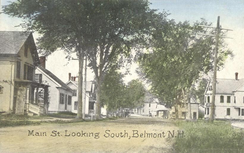 Main Street looking south, Belmont, New Hampshire